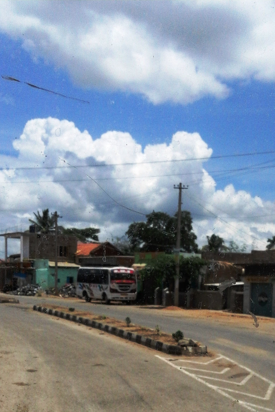 Nanjangud to T.Narasipura Road, Mysore district, Karnataka state, India.